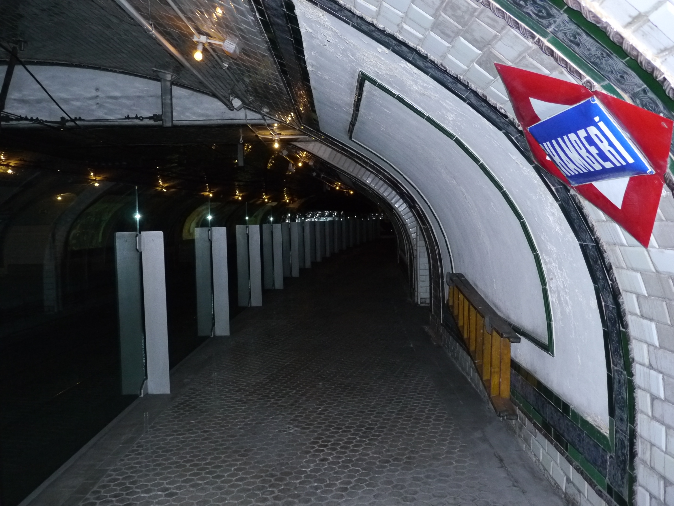 The unused Metro station, Chamberi. Now used as a museum.